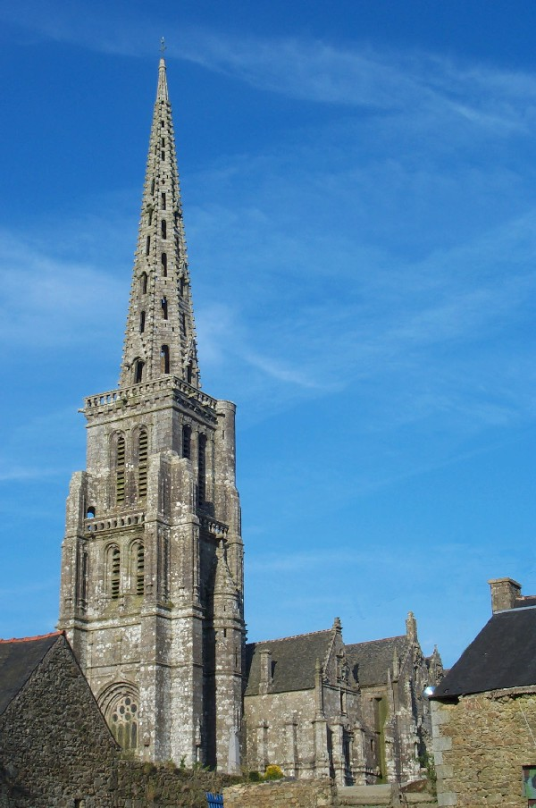 View from the church of Bulat-Pestivien located in côtes-d'Armor (22), in brittany, in France.